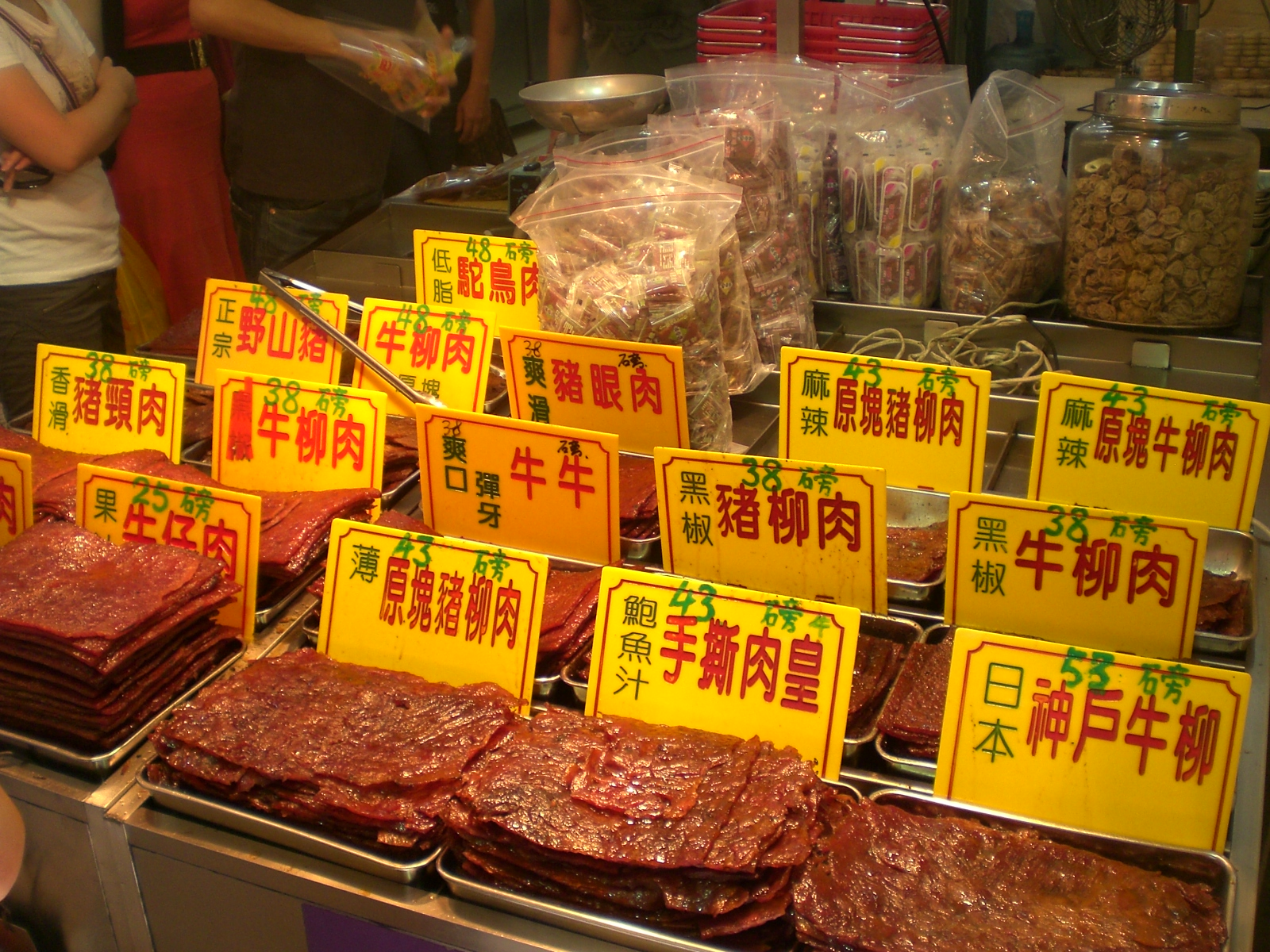 牛肉及豬肉產品 Author= Mo707